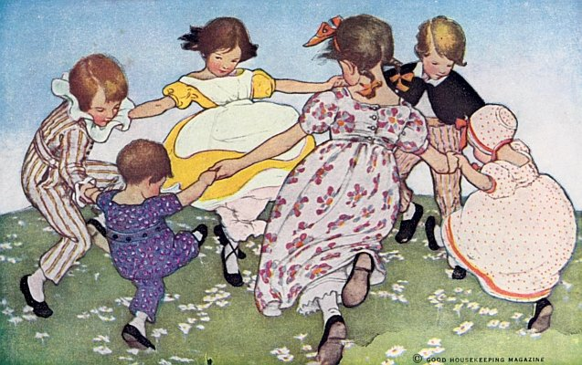 Illustration by Jessie Willcox Smith in The Little Mother Goose (1912) of children playing "Ring-a-round-a roses"